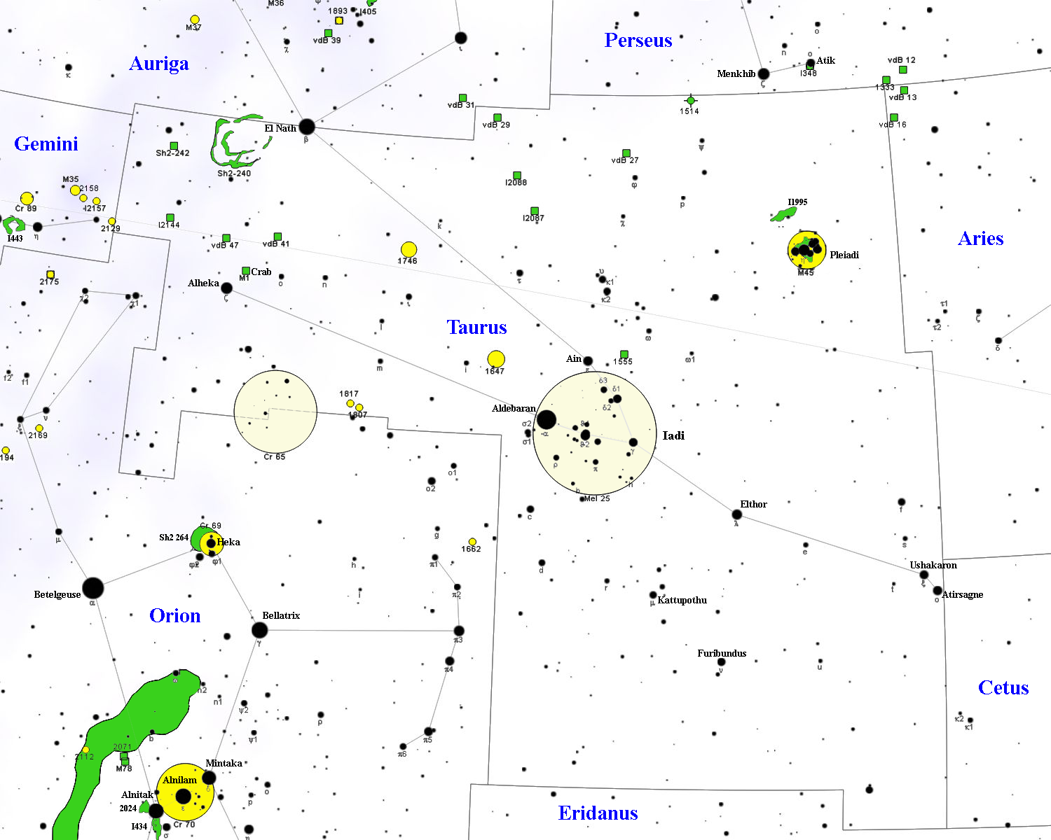 Taurus constellation map, with DSOs